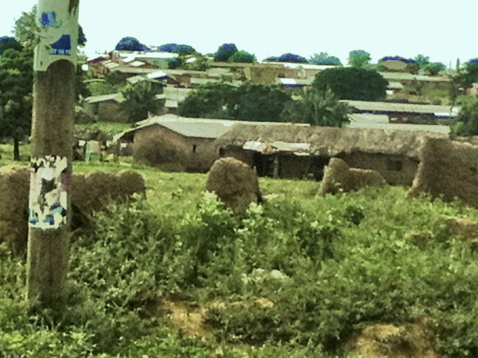 This is one of the areas sited within Dambai in the Volta Region of Ghana